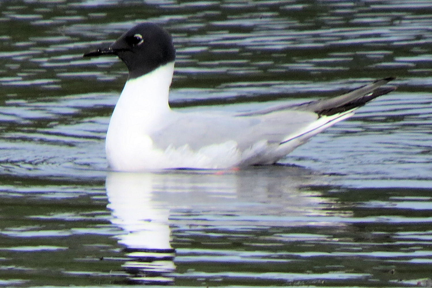 Bonaparte's Gull (Chroicocephalus philadelphia), Whitehorse, Yukon, Canada